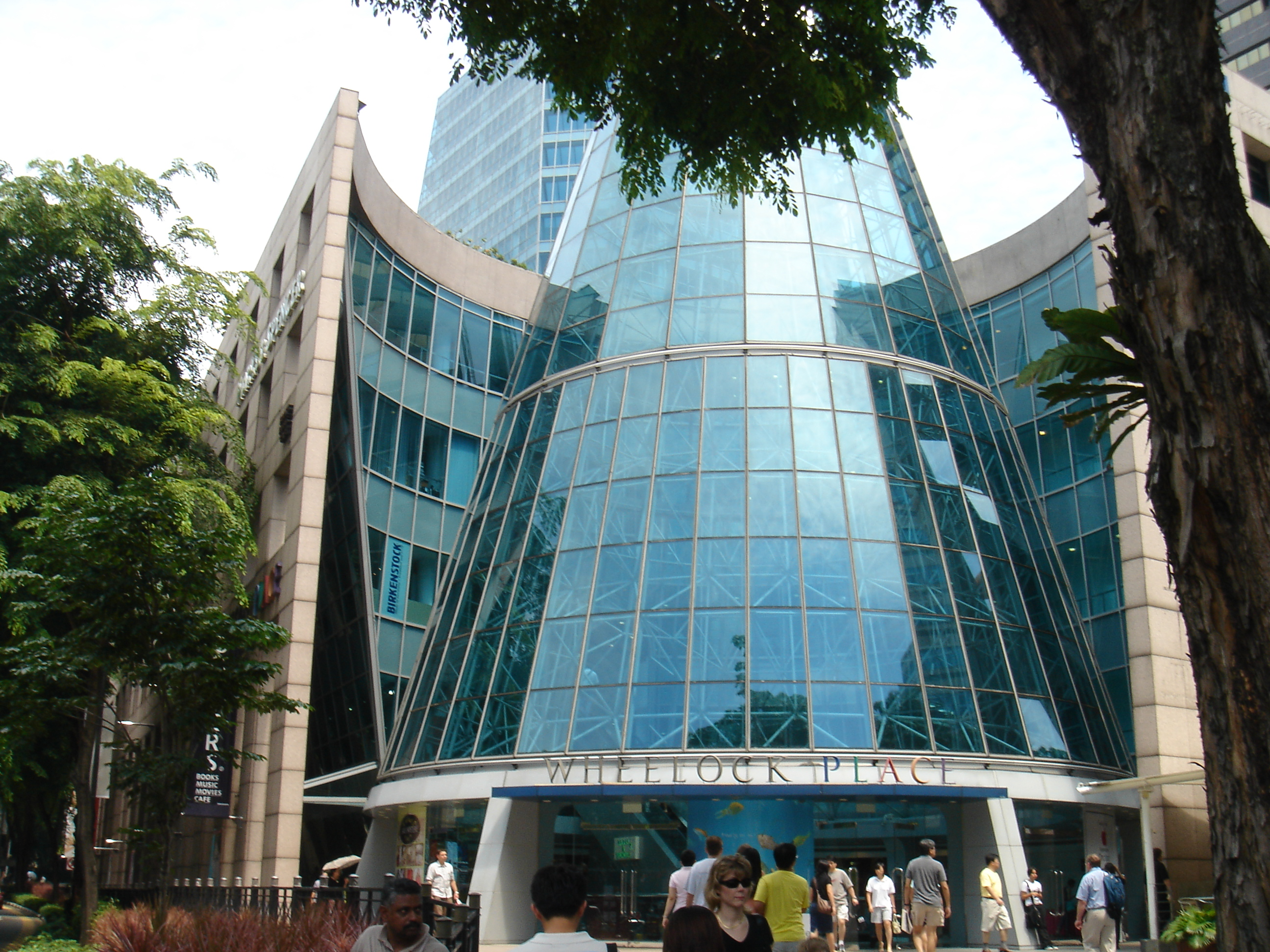 Wheelock Place, Orchard Road, Singapore.